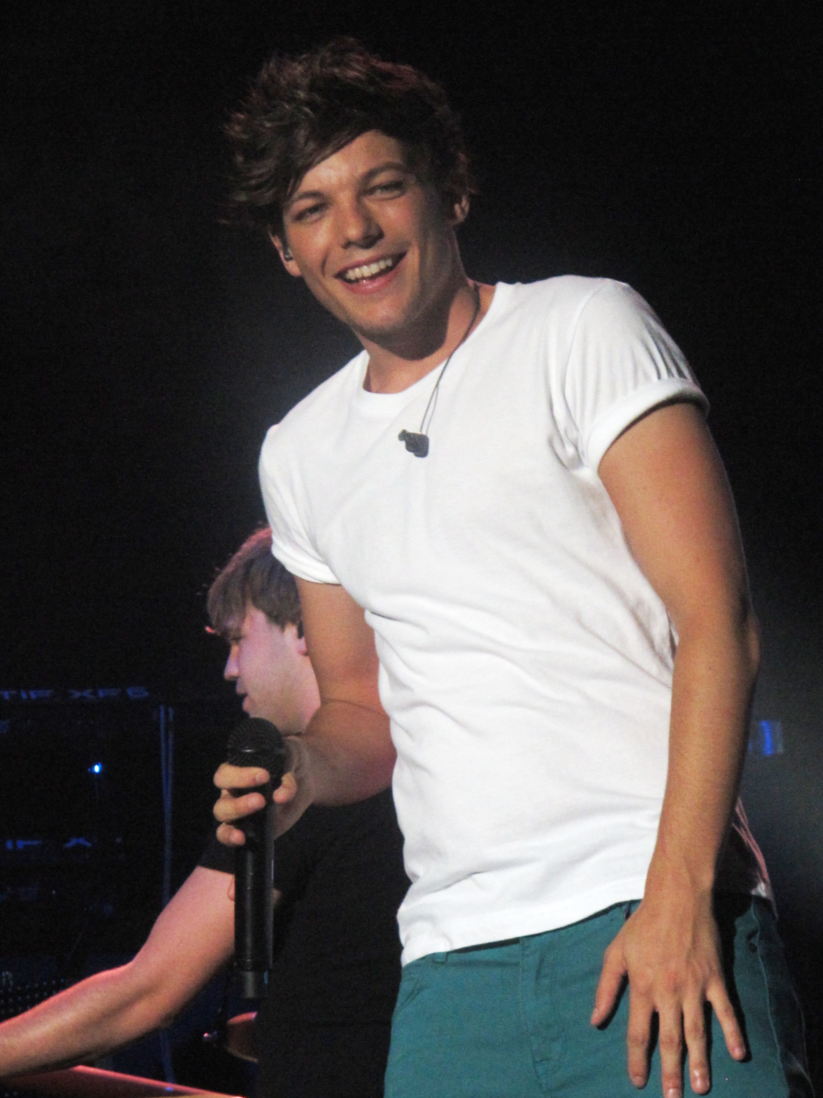 One Direction's Louis Tomlinson.